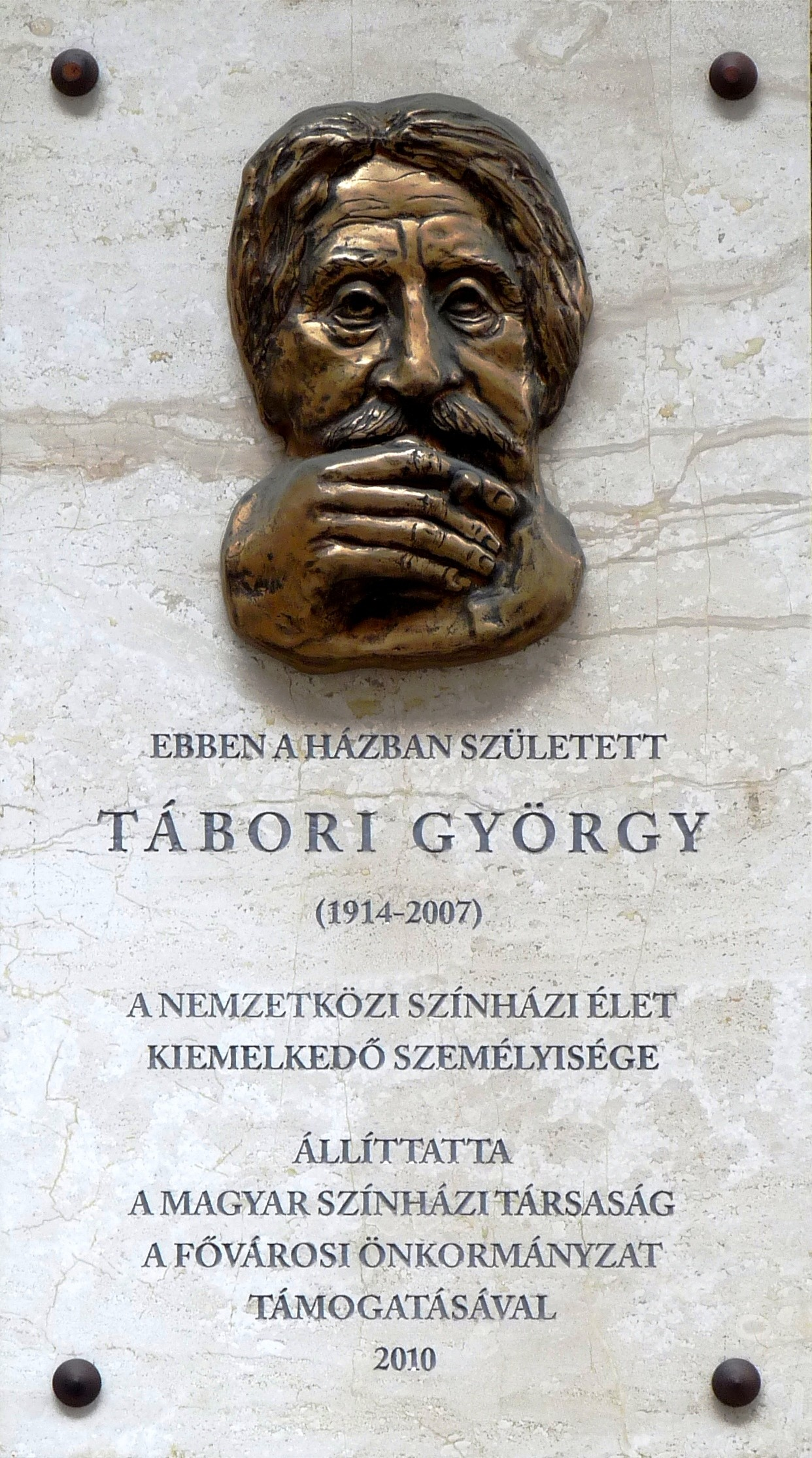 Commemorative plaque to Mr. George Tabori (1914–2007) Hungarian writer and theater director. It is placed on the front of the house where he was born. Author of the bronz relief is Mr. Mátyás Varga. It was unveiled on May 26, 2010. (Budapest, District VIII, Krúdy Street Nr 16-18).